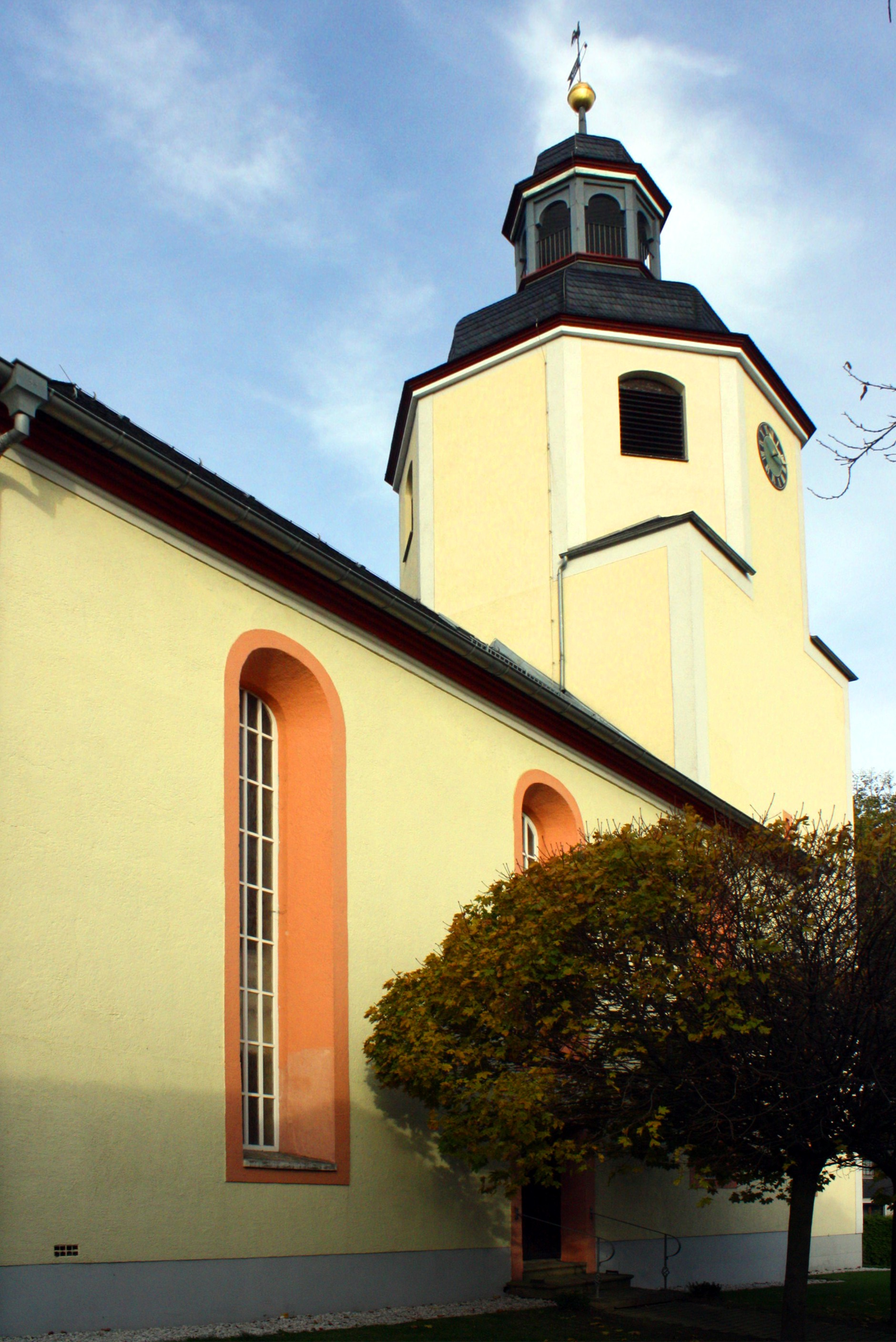 Church in Dittersdorf near Schleiz/Thuringia